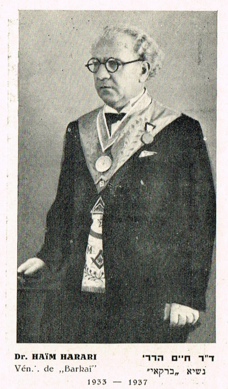 Dr Haim Harari